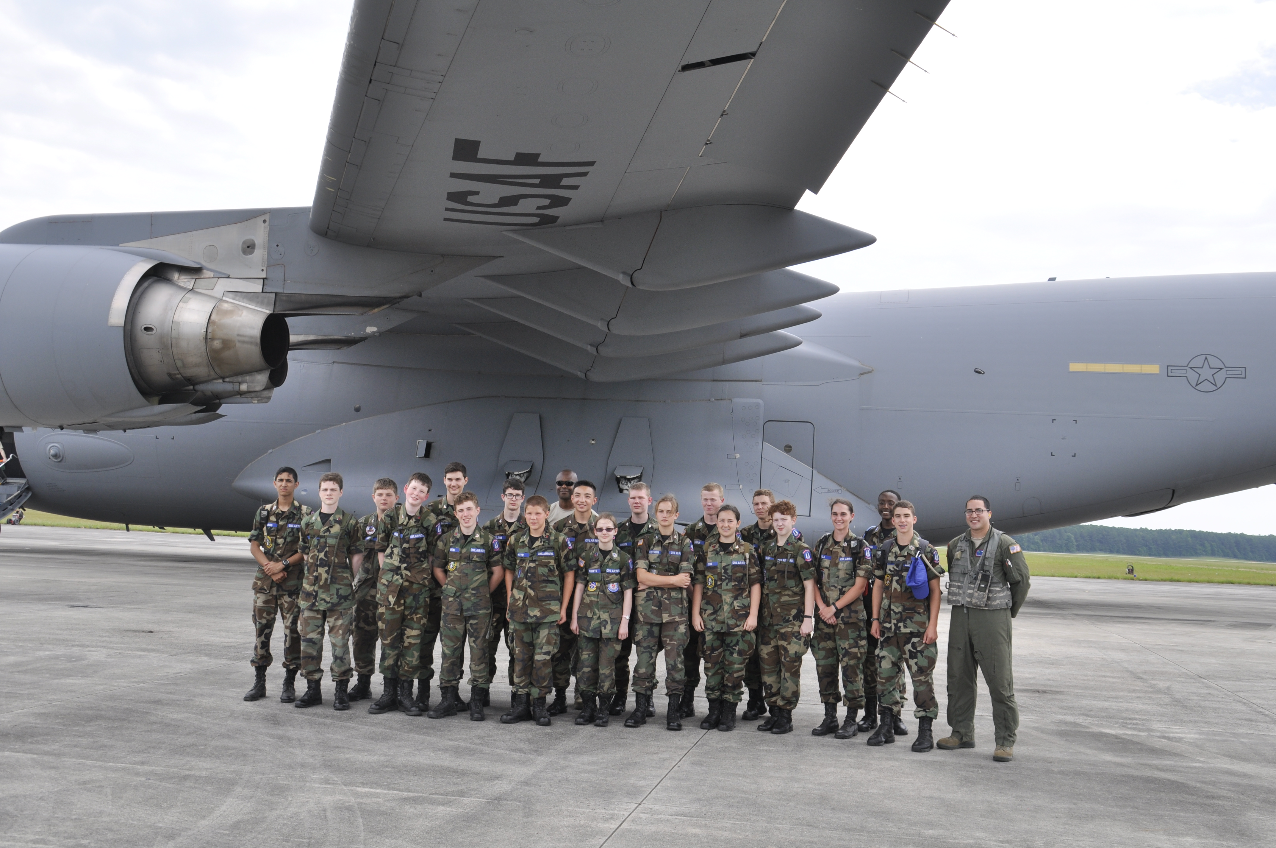 Civil Air Patrol cadets pose in front of C17 after touring the plane.